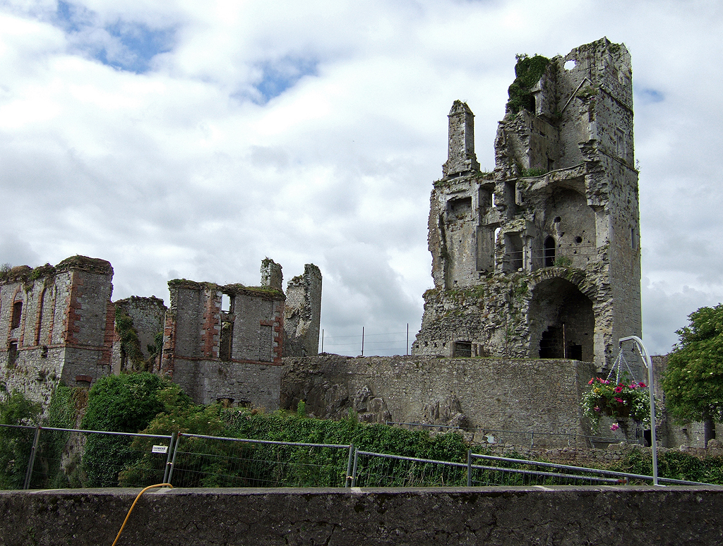 Askeaton Castle A Desmond castle standing on a rocky island on the River Deel. Founded by William de Burgo in 1199, it became the dwelling place of the Kings of Munster. Currently undergoing restoration.